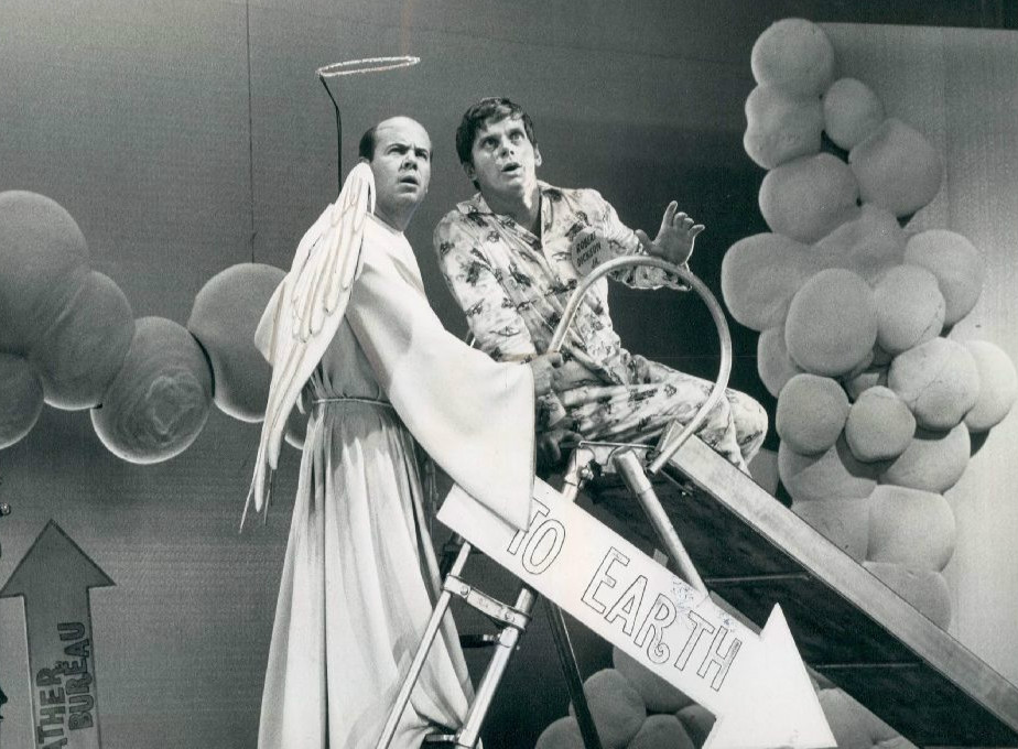 Publicity photo from the television show That's Life. Pictured are Tim Conway and Robert Morse.